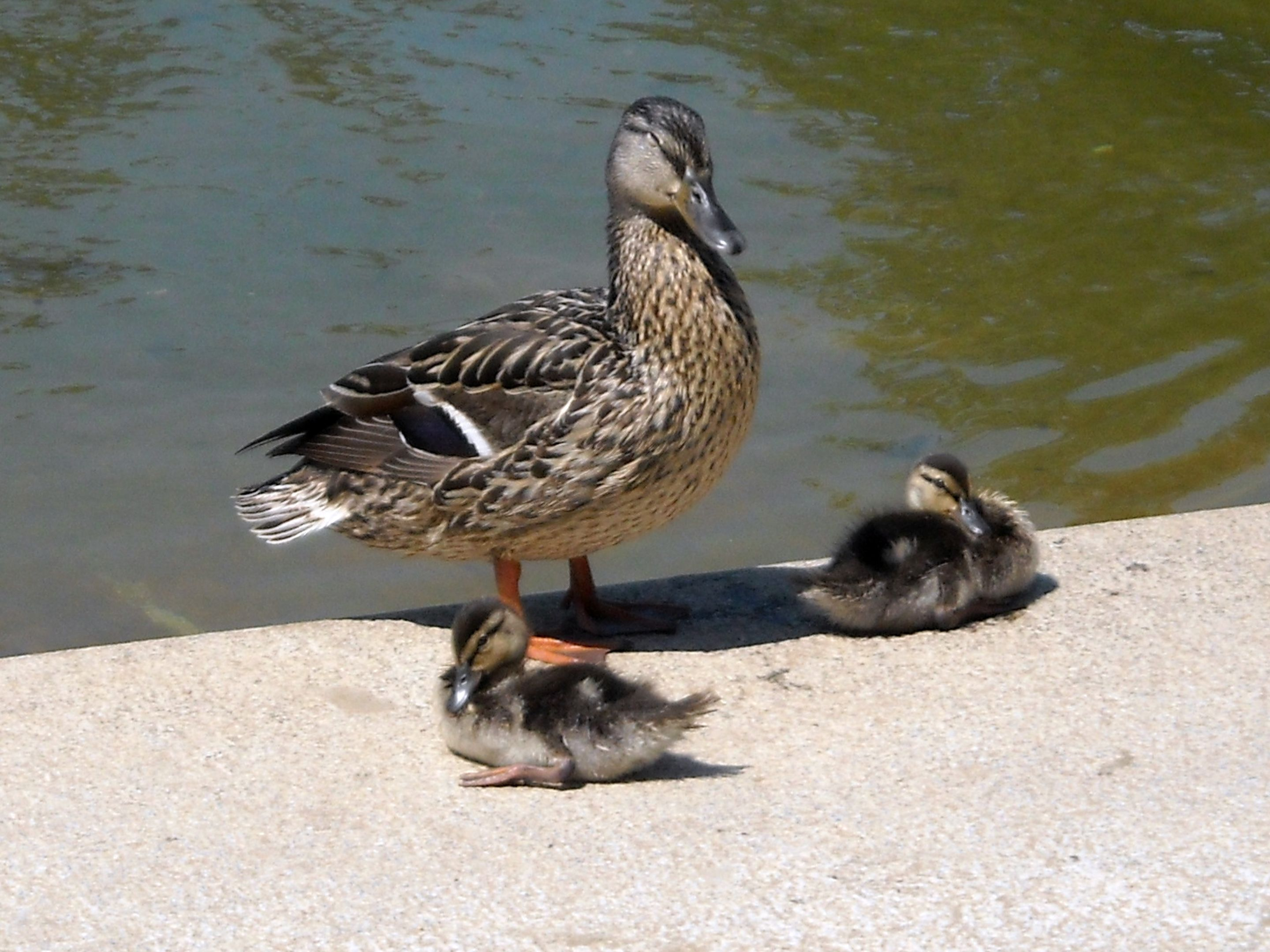 Duck with young at the Reflecting Pool in Washington, D.C.